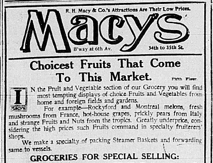 Ad showing various choice fruits for sale at Macy's in New York City, including Montreal melons.